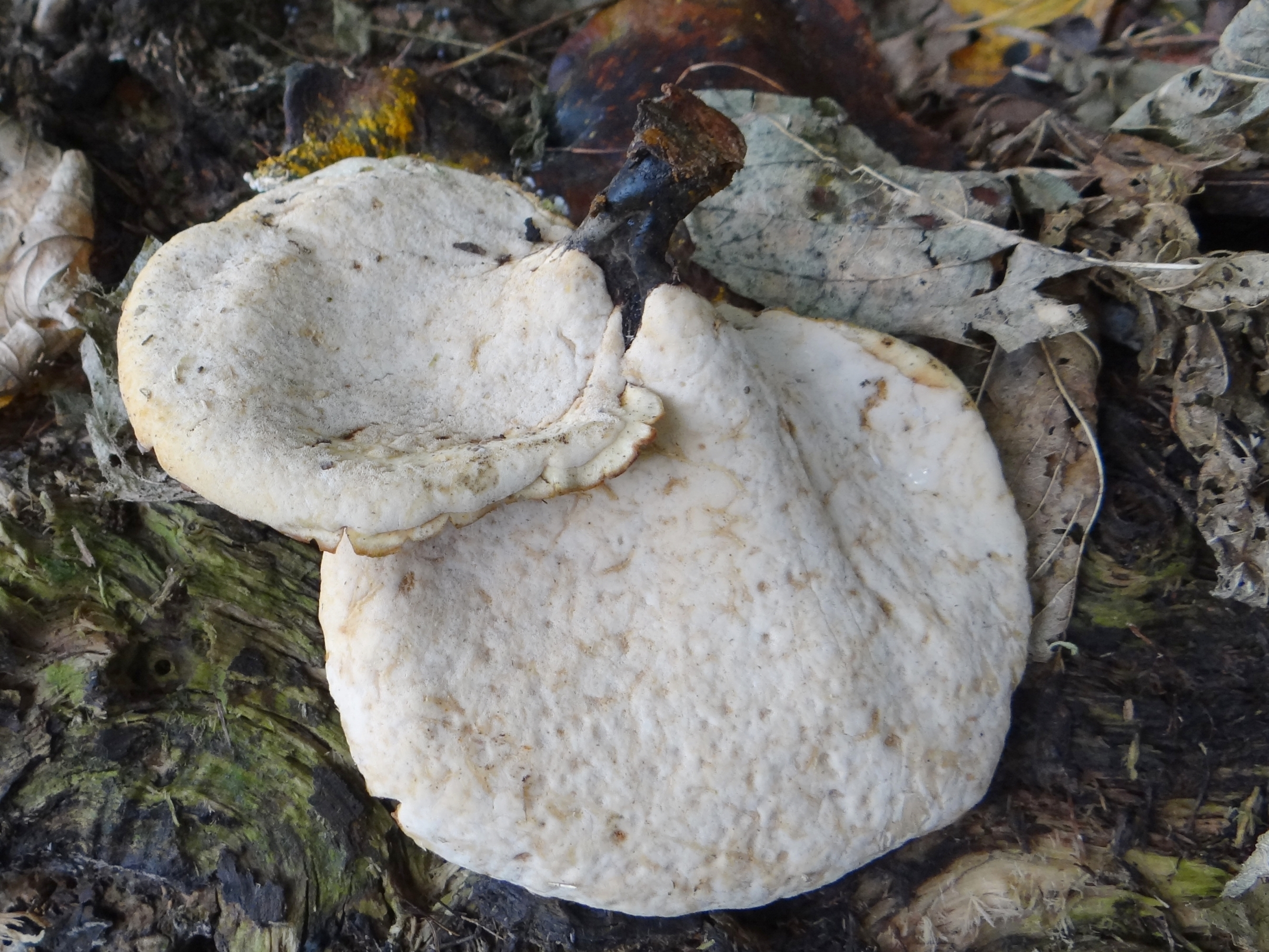 Royoporus badius (hymenofor)